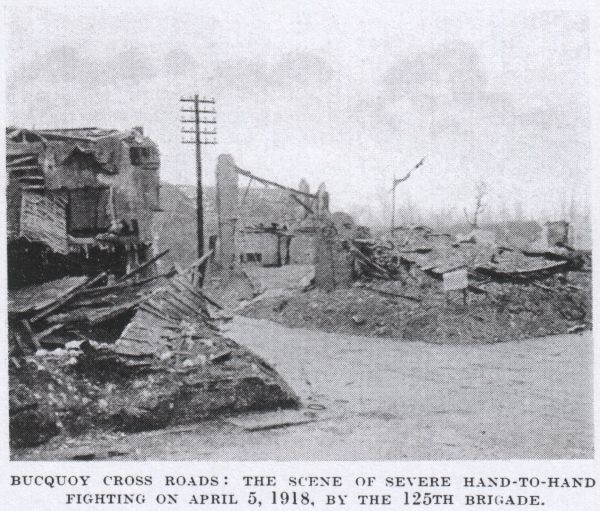 Photograph of Bucquoy Crossroads, France after heavy fighting in 1918.